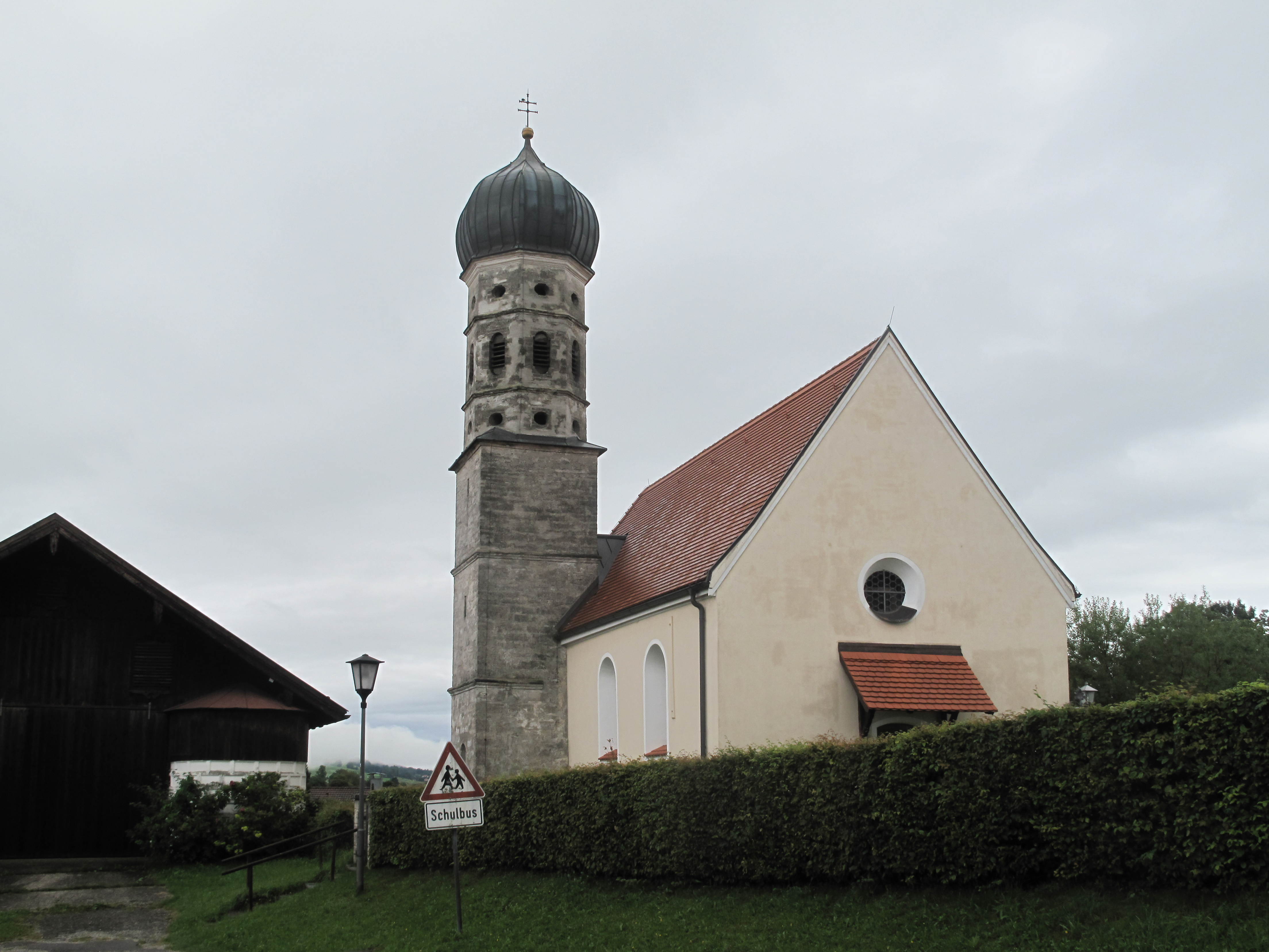 Waltersberg, church: die Sankt Vitus Kirche